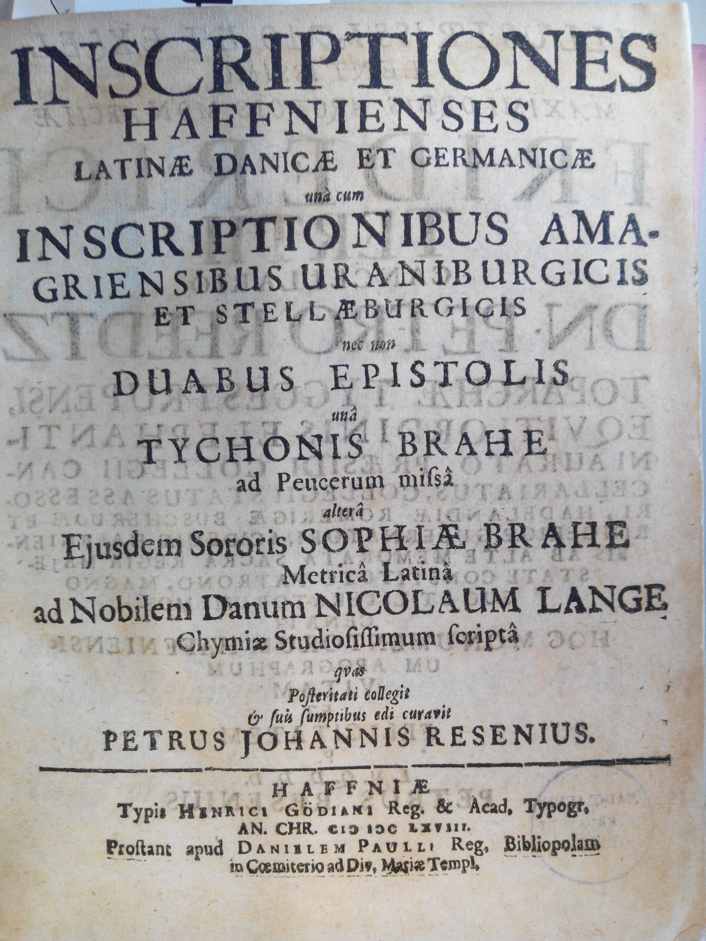 Page de grand titre de l'ouvrage de Sophia Brahe : "Inscriptiones Hafnienses latinae, danicae et germanicae, una cum inscriptionibus Amagriensibus, Uraniburgicis et Stellaeburgicis"